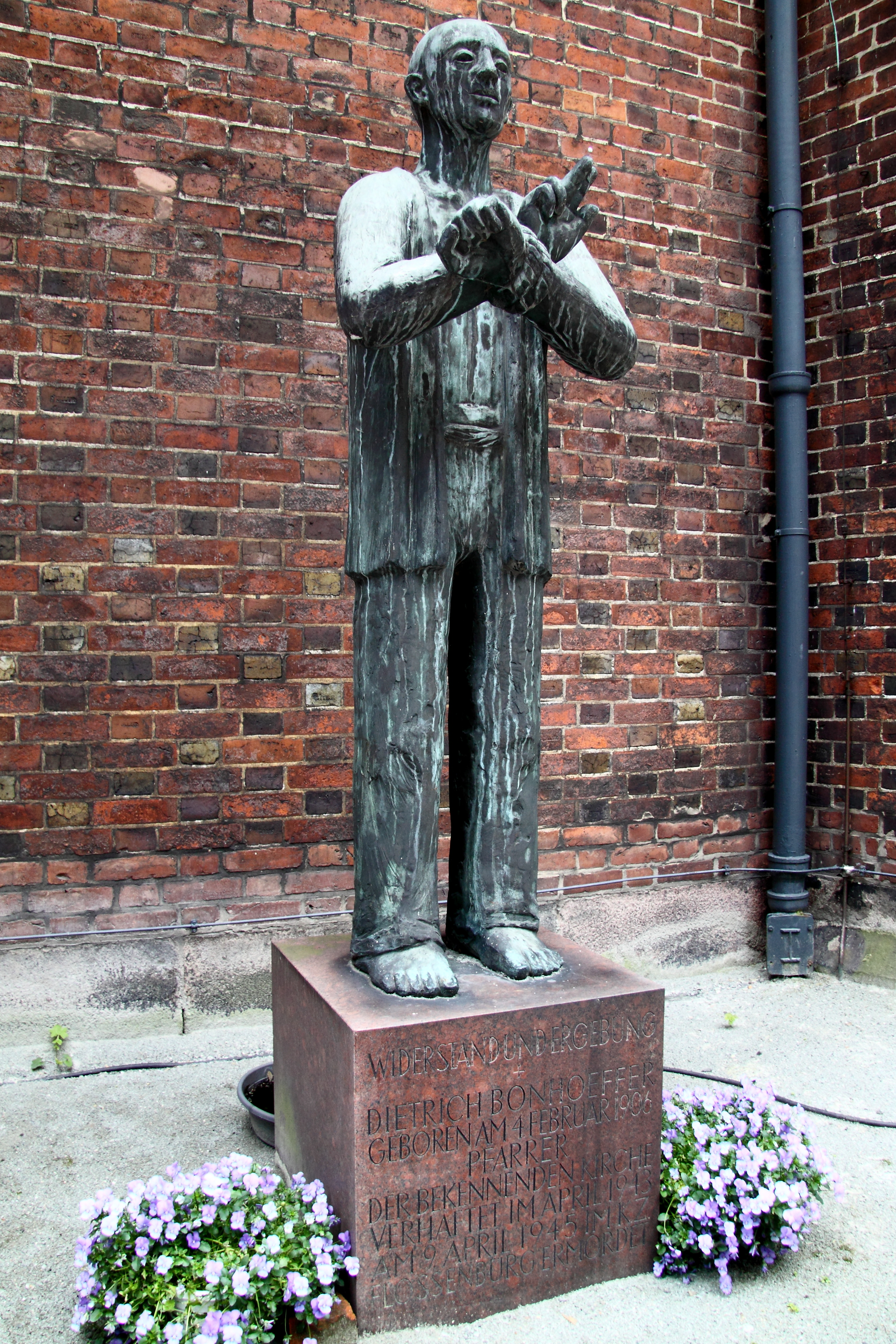 Sculpture of Dietrich Bonhoeffer by Fritz Fleer in front of St. Peter's Church, Hamburg. This is a photograph of an architectural monument. (52)